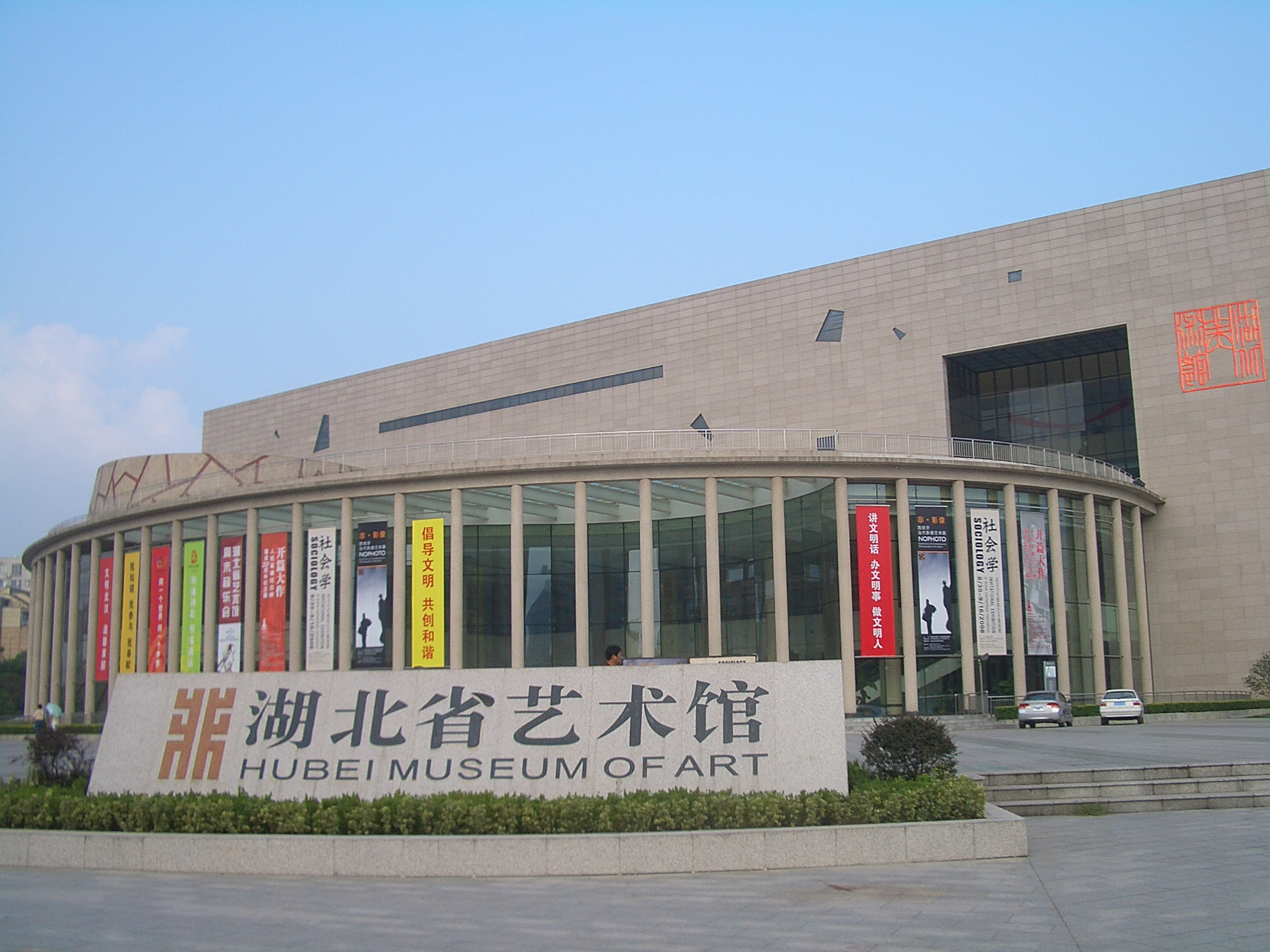 Hubei Museum of Art, in Donghu Lu in Wuhan